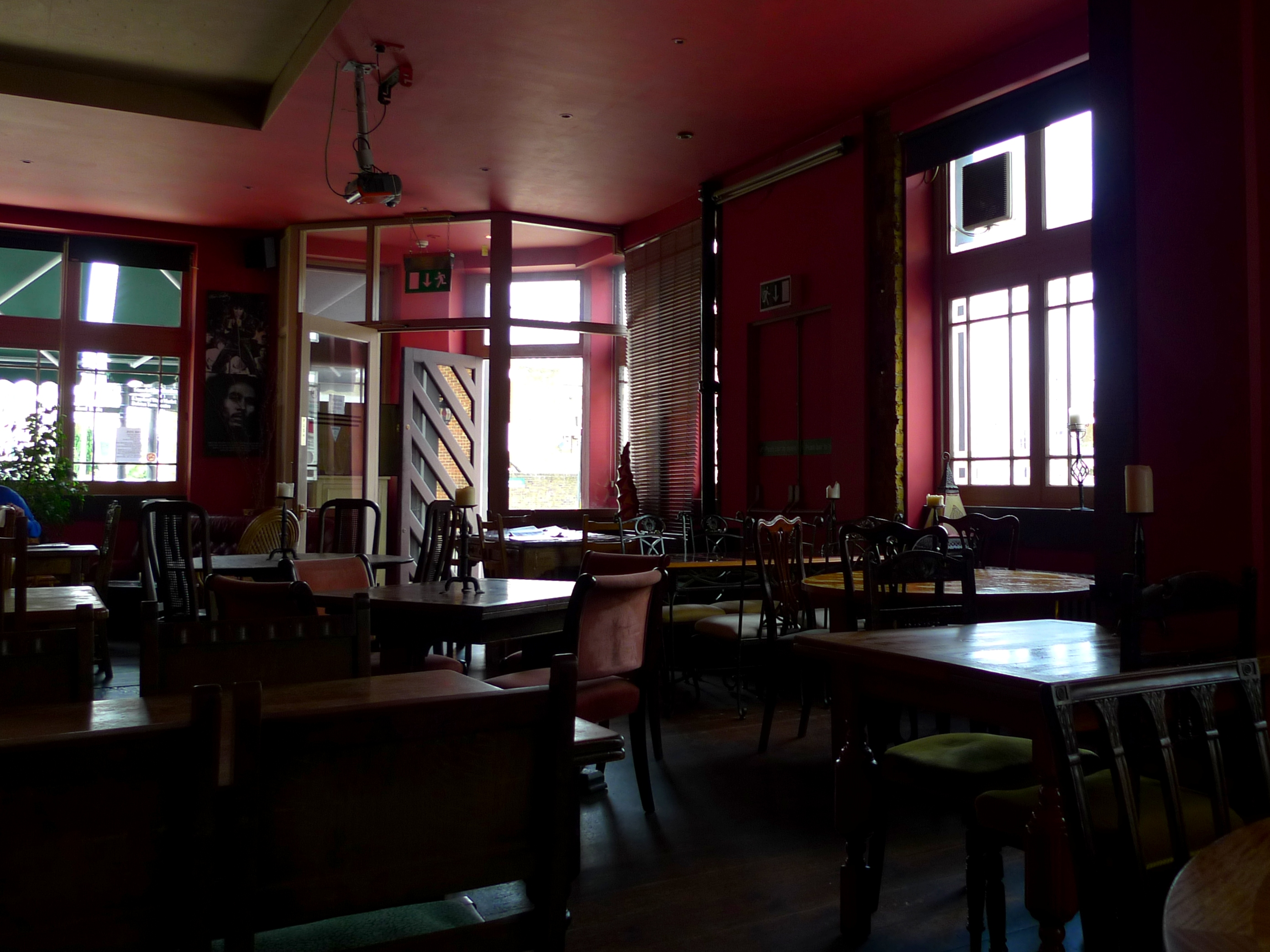 Looking towards the door of this gastropub. (View of exterior.)